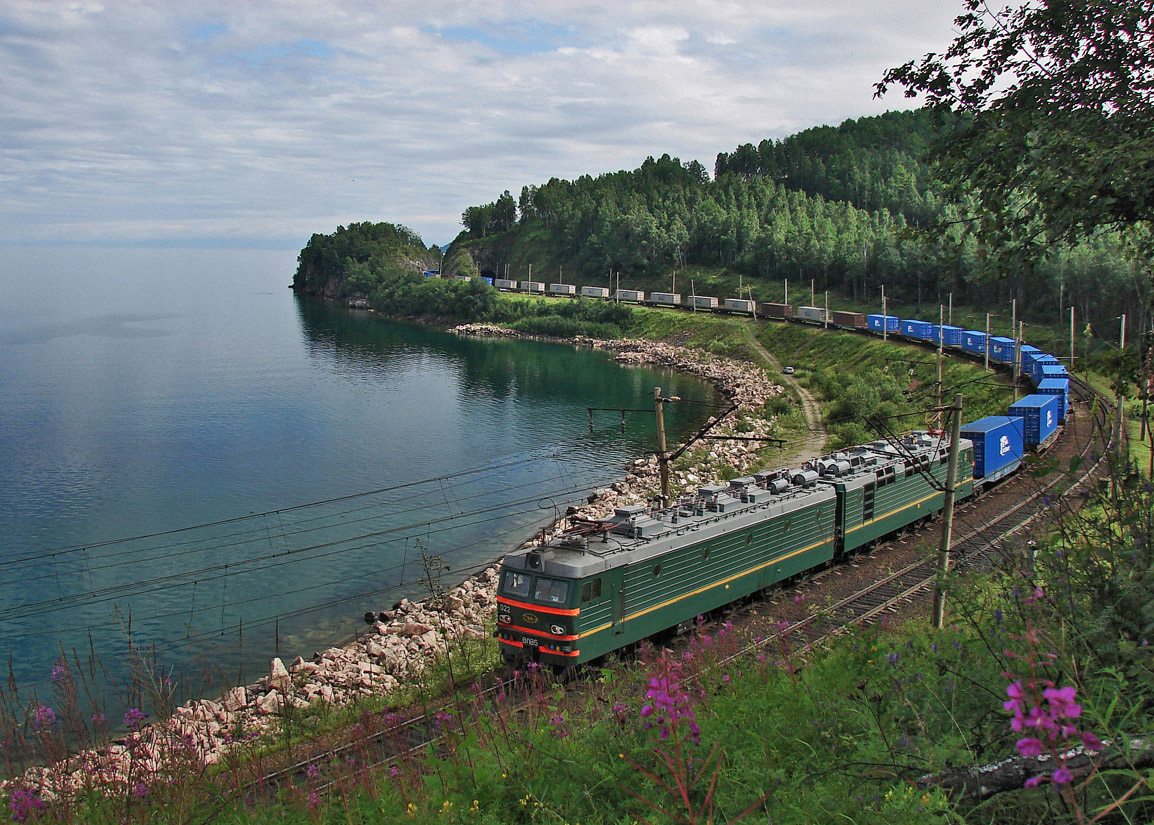 BoBoBo+BoBoBo VL85 class AC electric locomotive VL85-022 with a container train on the coast of Lake Baikal, Trans-Siberian Railway: the stretch between Utulik-Slyudyanka.